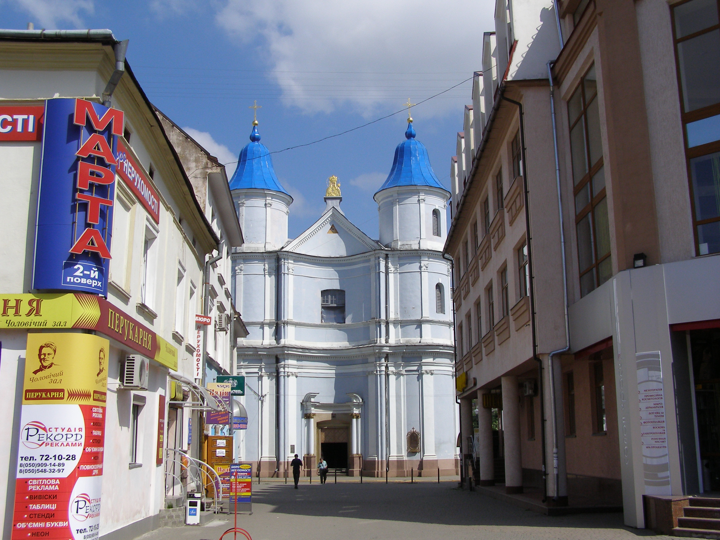 Ukrainian Orthodox church (former Armenian) in Ivano-Frankivsk, western Ukraine.